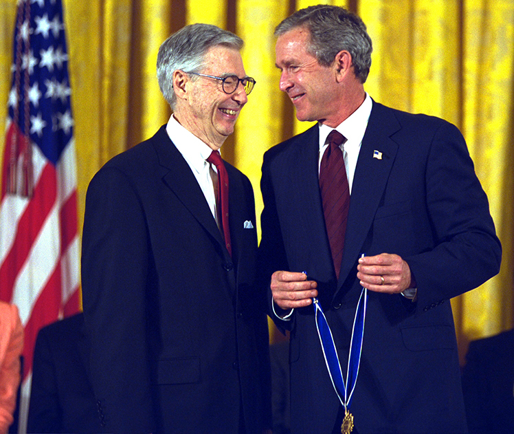 President George W. Bush presents the Presidential Medal of Freedom Award to Fred Rogers July 9, 2002, during ceremonies in the East Room. Photo by Paul Morse, Courtesy of the George W. Bush Presidential Library